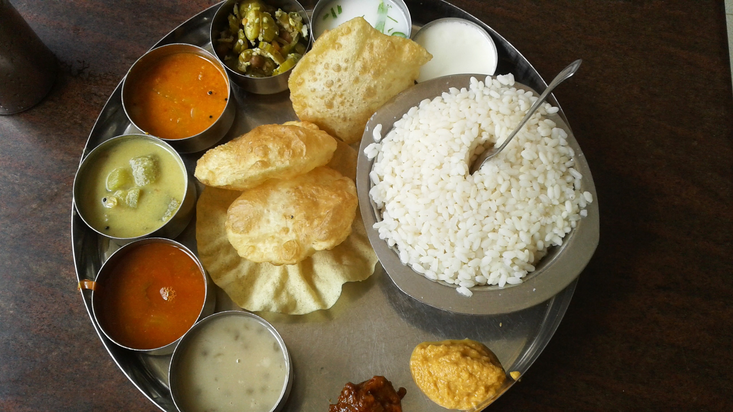 Dakshin Kannada district, Karnataka state, India.